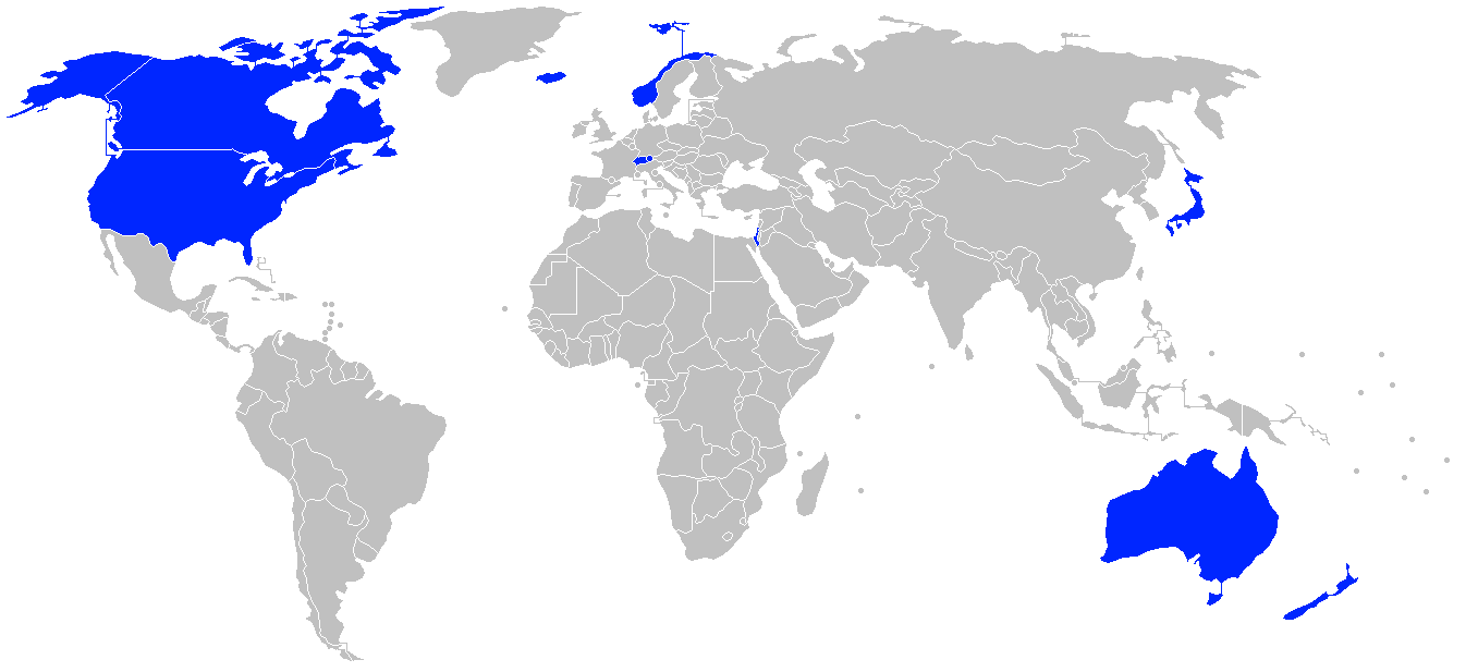 Map of countries in JUSCANZ, also known as the Umbrella Group. Australia, Canada, Iceland, Israel, Japan, Liechtenstein, New Zealand, Norway, and Switzerland.